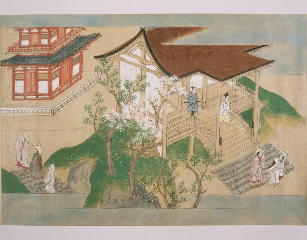 Kiyomizudera engi emaki - Scroll2 Pic11